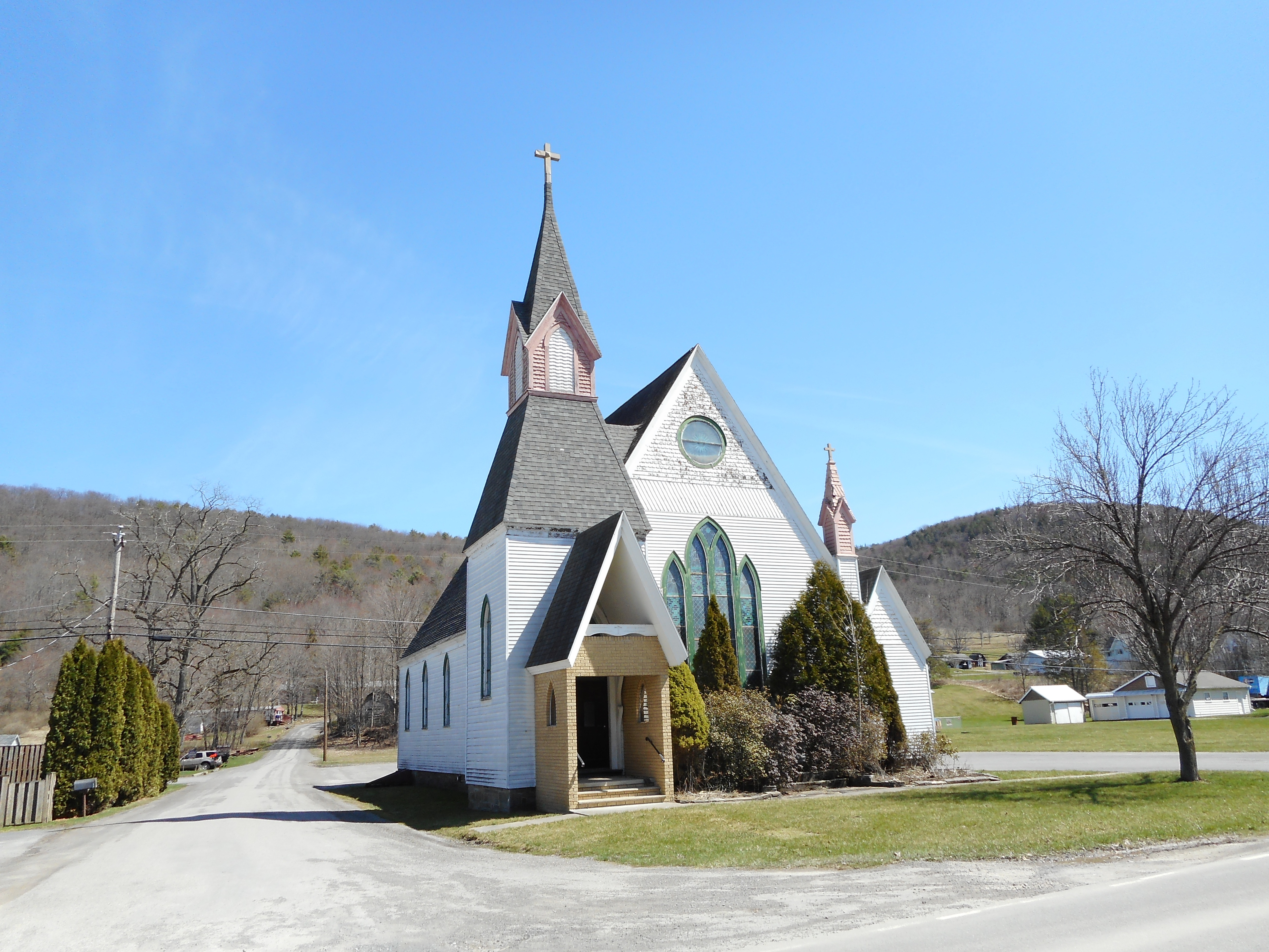 Church in Bentley Creek, Bradford County, Pennsylvania. It looks like it was abandoned about 3-5 years before the photo. No sign or markings to determine the denomination